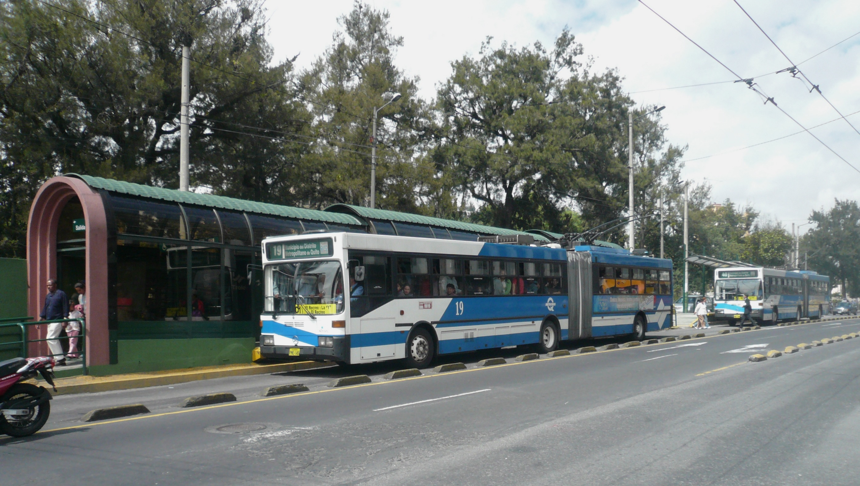 Trolleybus No. 19 of the Quito trolleybus system stopped at one of the high-platform stations on the line, and travelling in a trolleybus-only traffic lane. Another trolleybus (No. 40) is right behind. The station in the photo is on Avenida 10 de Agosto, in the city centre.